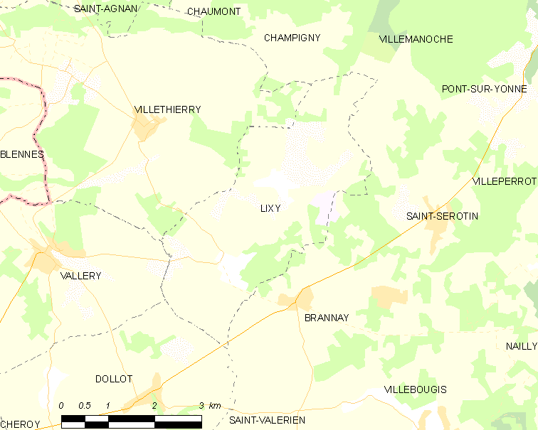 Map of French municipality Lixy